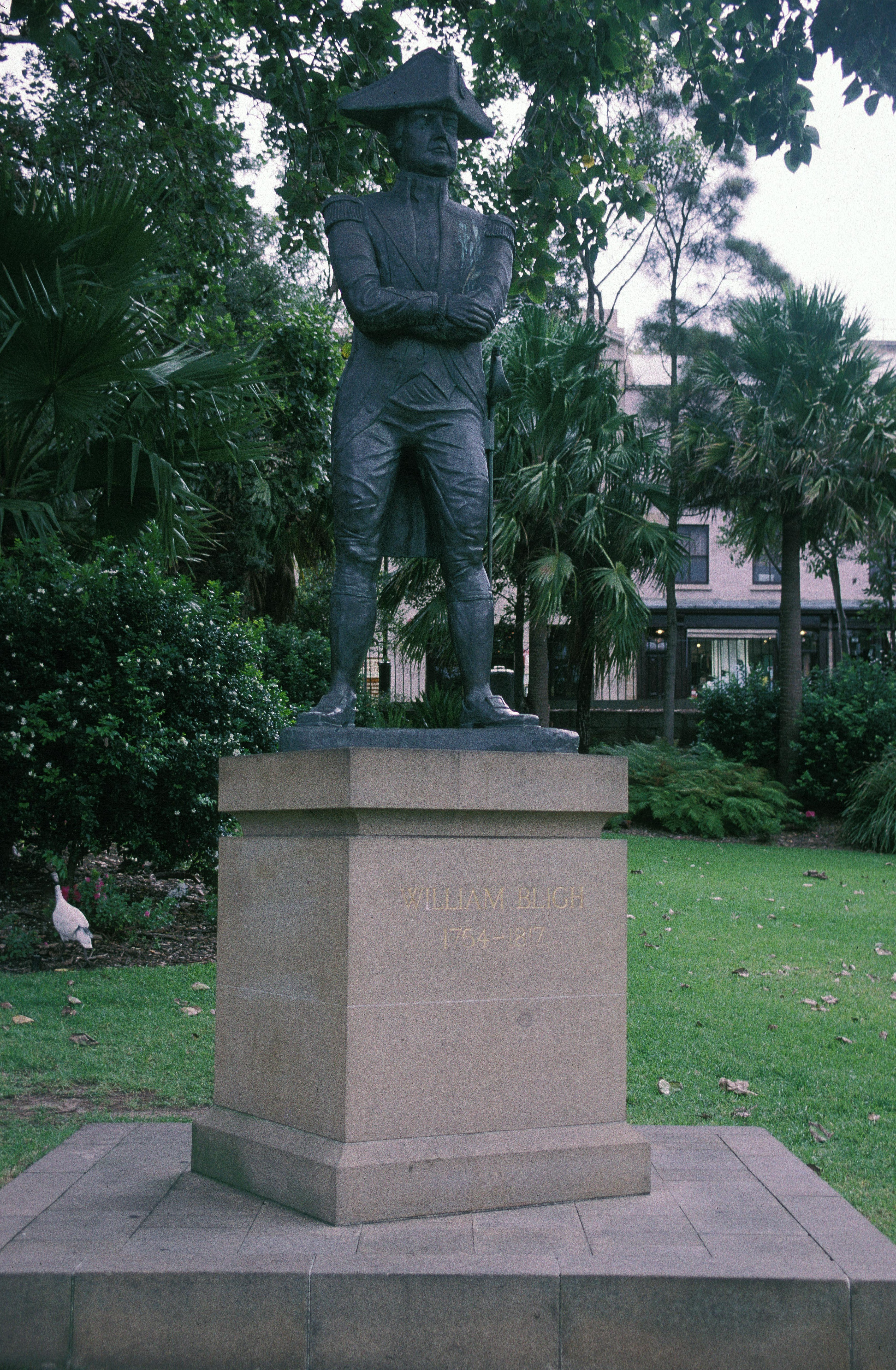 STATUE OF WILLIAM BLIGH BESIDES CADMAN’S COTTAGE. BLIGH WAS ONE TIME GOVERNOR OF NEW SOUTH WALES.